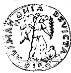 738 woodcuts illustrating the work A Dictionary of Roman Coins, Republican and Imperial (1889). To identify a coin please look at the filename to identify a page number, and check the Dictionary on numiswiki